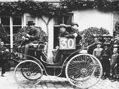 1894 paris-rouen motor race - michaud (peugeot phaeton 3hp) finished 9th